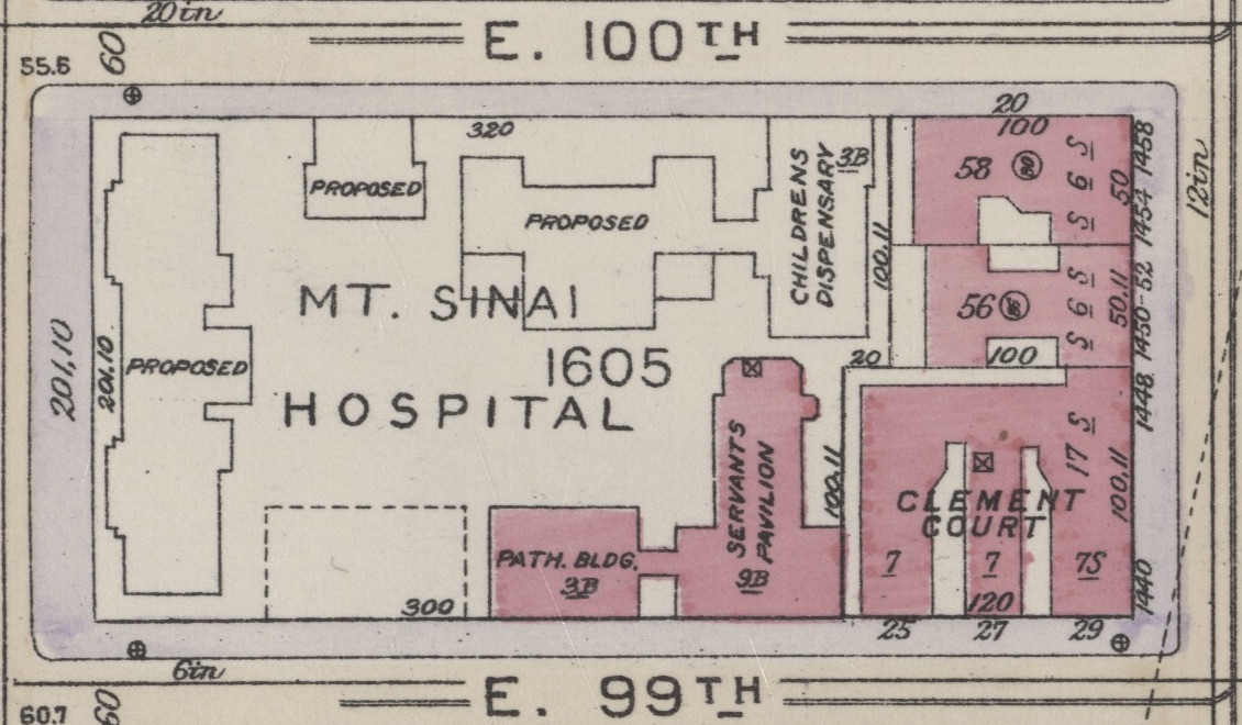 Plate 120 from: Bromley, George W. and Walter S. Atlas of the Borough of Manhattan City of New York. Desk and library edition. (New York: G. W. Bromley and Co., 1916) FOR KEY TO MAP SYMBOLS, CLICK HERE.